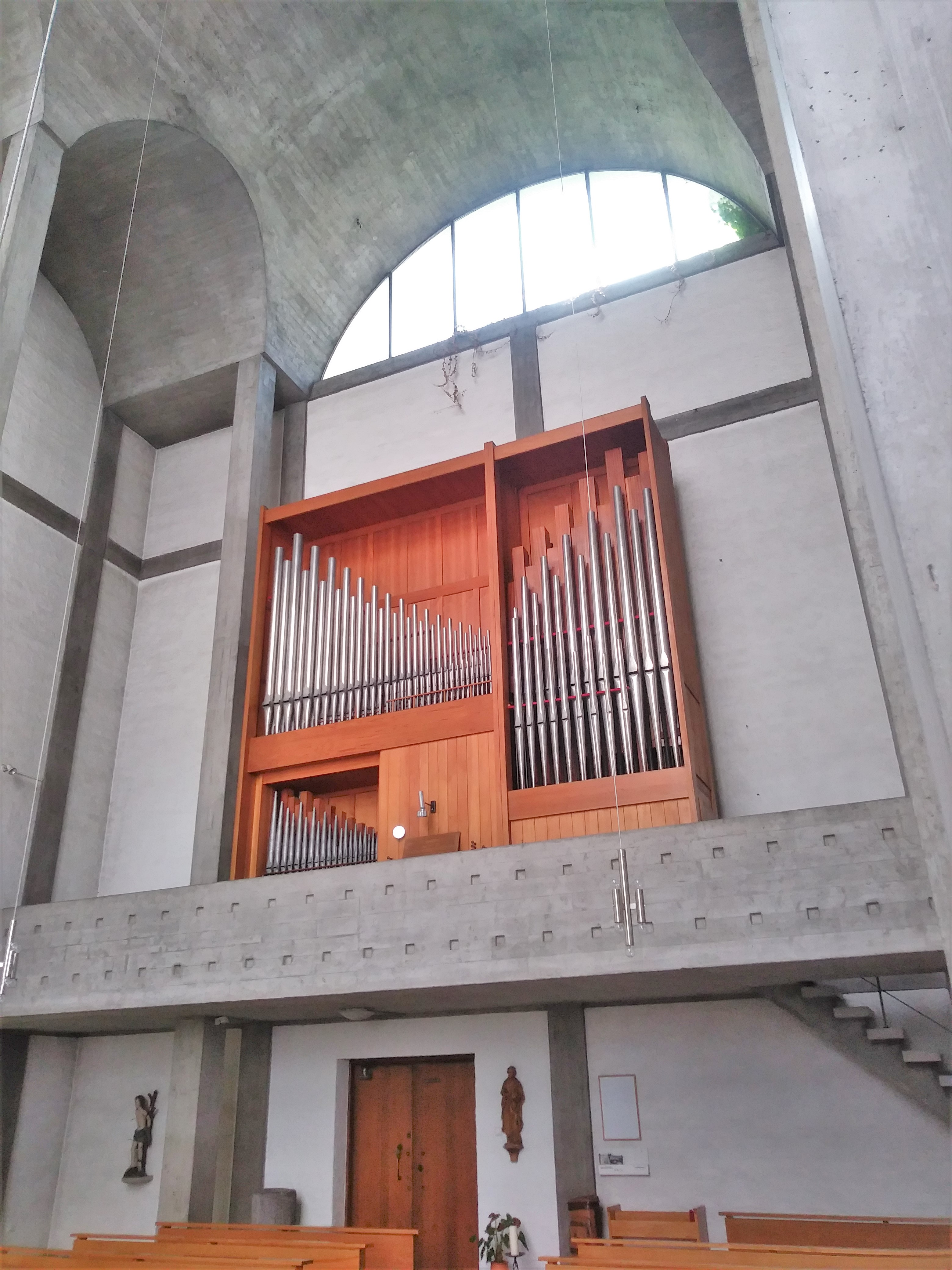 Rieger-Orgel der Herz-Jesu-Klosterkirche (München-Isarvorstadt)